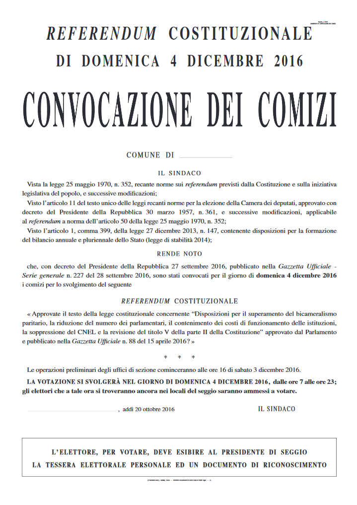 2016 Italian constitutional referendum calling notice (facsimile)